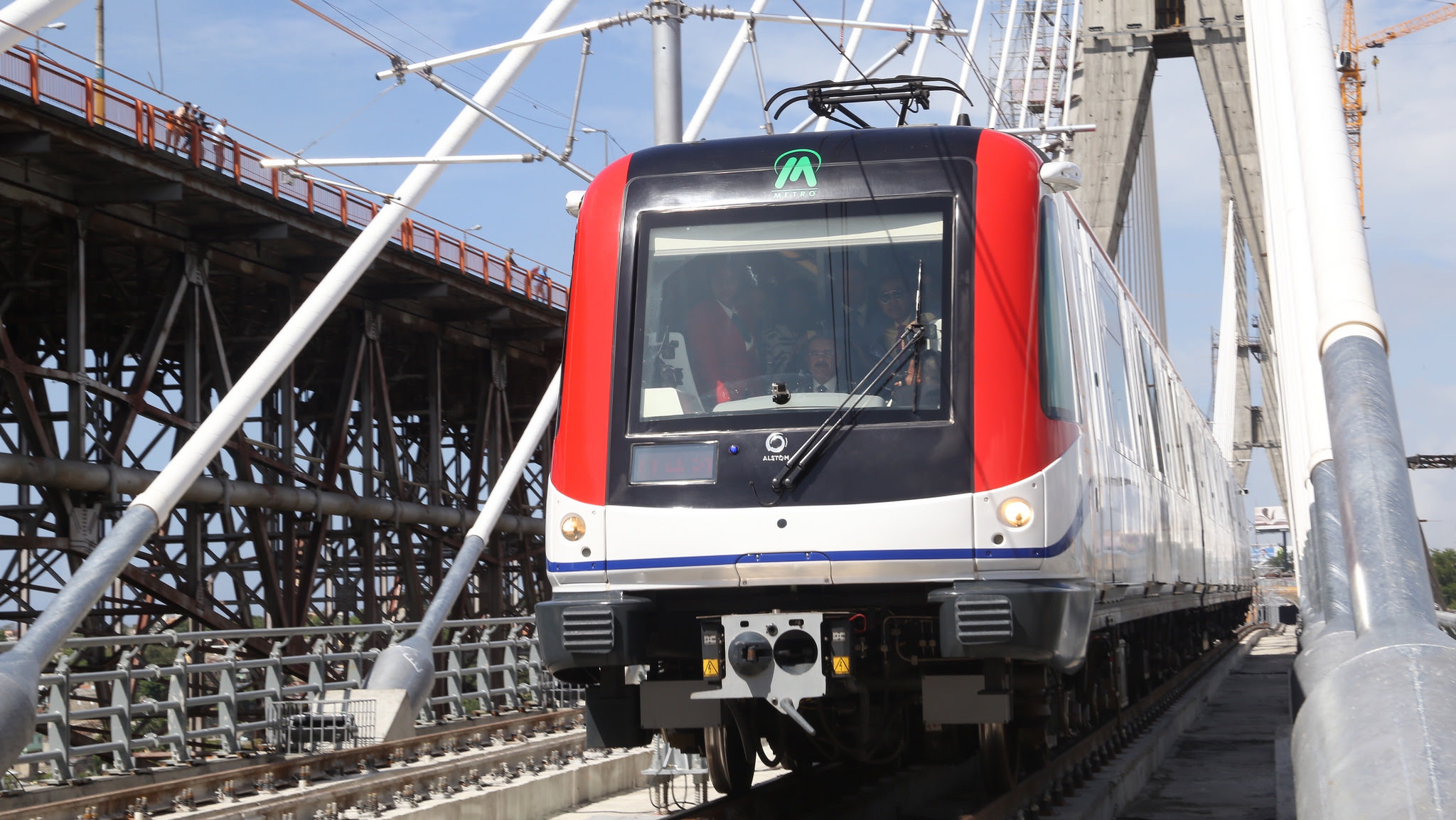 Metro